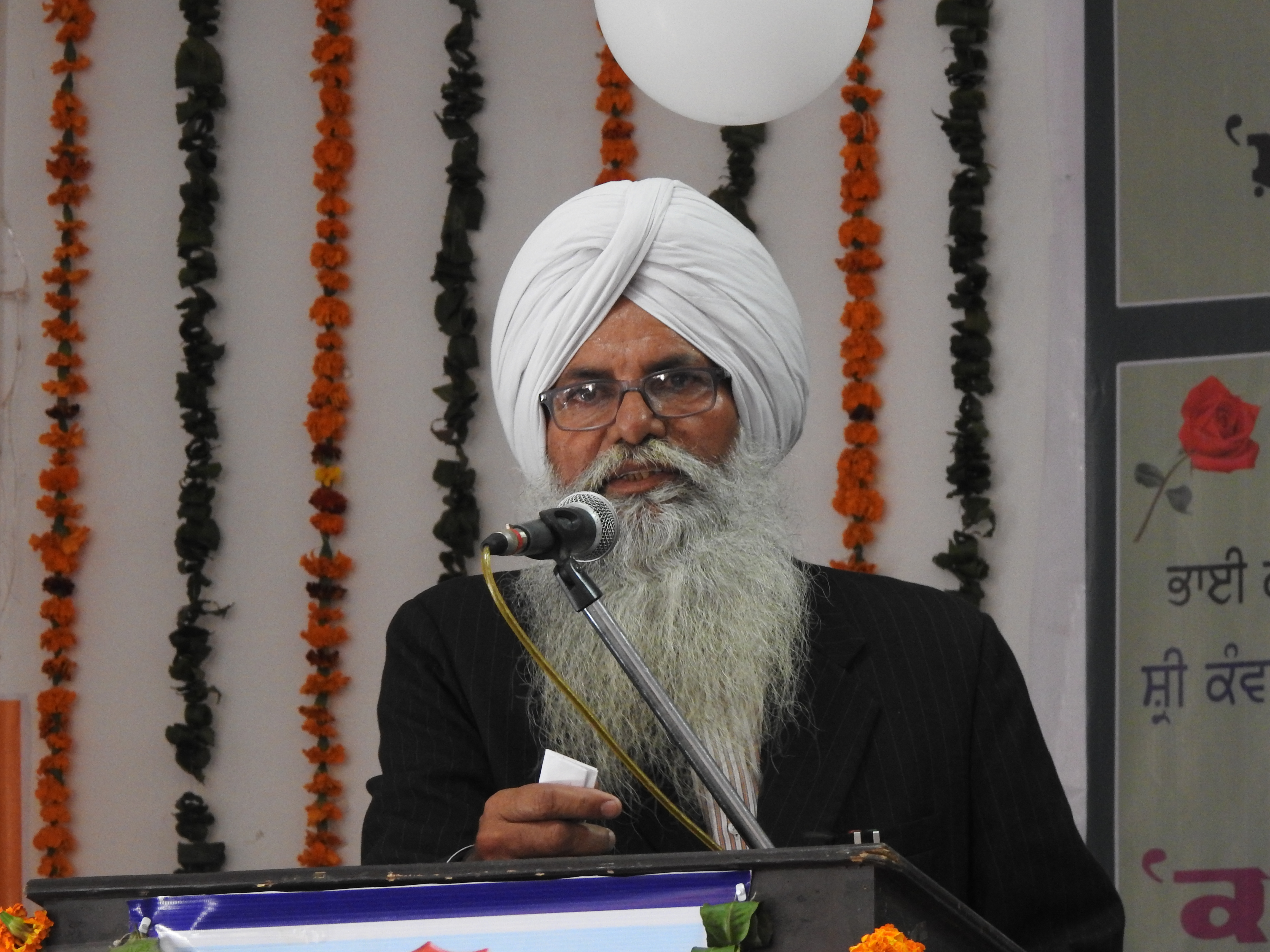 Sewa Singh Bhasho ,Punjabi language poet,Punjab,India